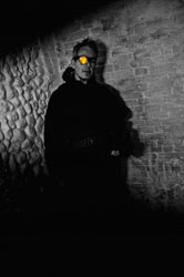 Description - Roderick Gordon dressed as one of his characters, Drake, from the Tunnels books Source - Date - 16:50, 29 March 2010 (UTC) Author - Lifesawhirl With kind permission of Roderick Gordon owner of source images Permission -(Reusing this image) Creative Commons Attribution-ShareAlike 3.0 Unported License already obtained from Roderick Gordon for text content on this page. Permission for images is also covered by as the images used here are displayed on " (the website page listed in the release). Wikipedia Permissions Team (Michelle Kinney), will confirm the images are covered under the existing licence.